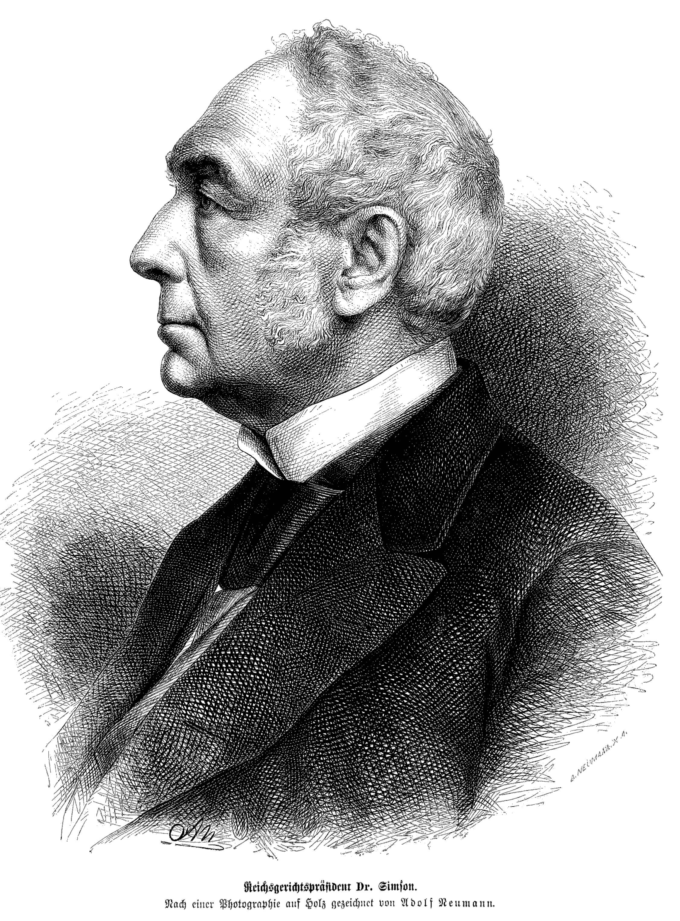 caption: "Reichsgerichtspräsident Dr. Simson. Nach einer Photographie auf Holz gezeichnet von Adolf Neumann."